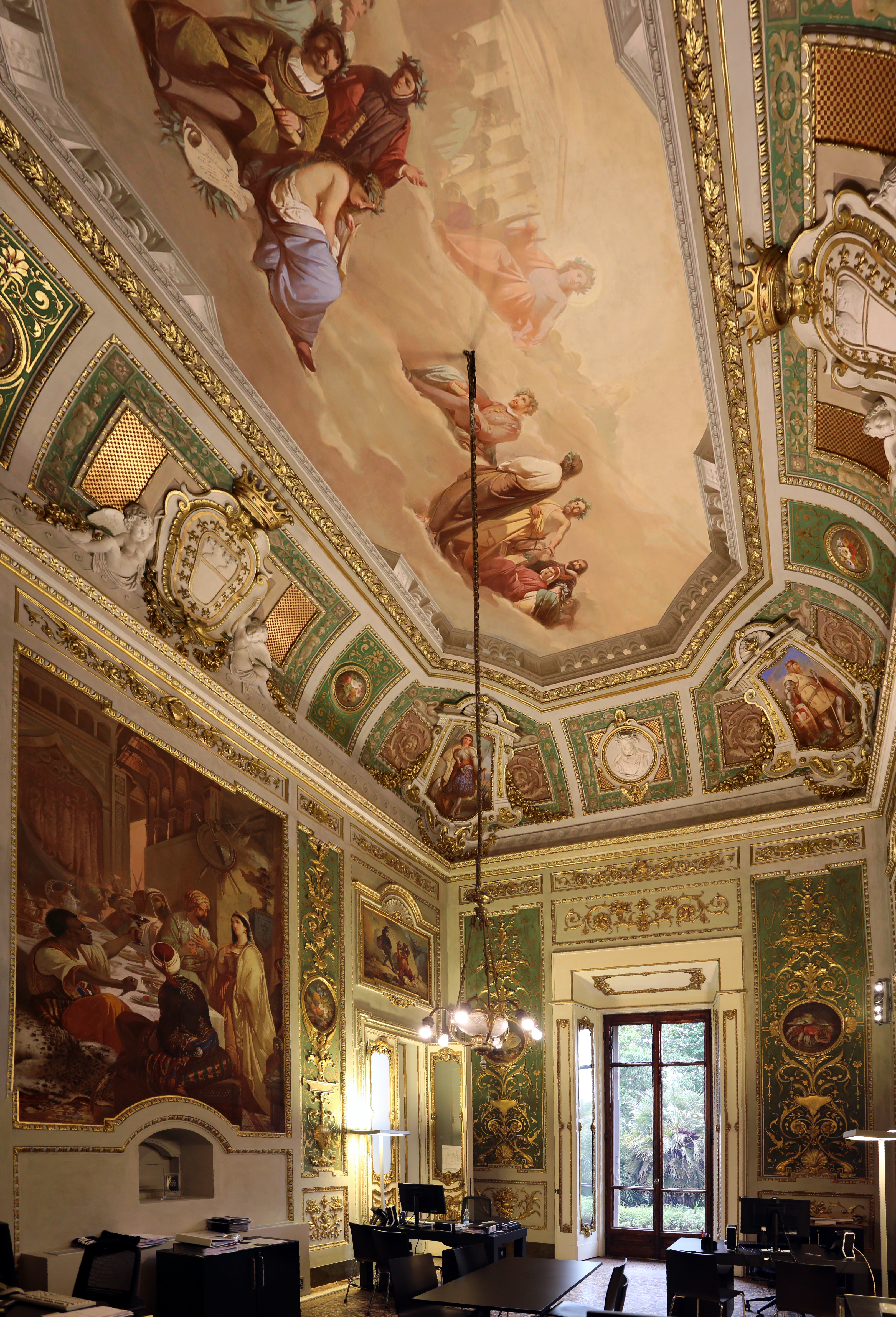 Villa Favard - Tasso Room